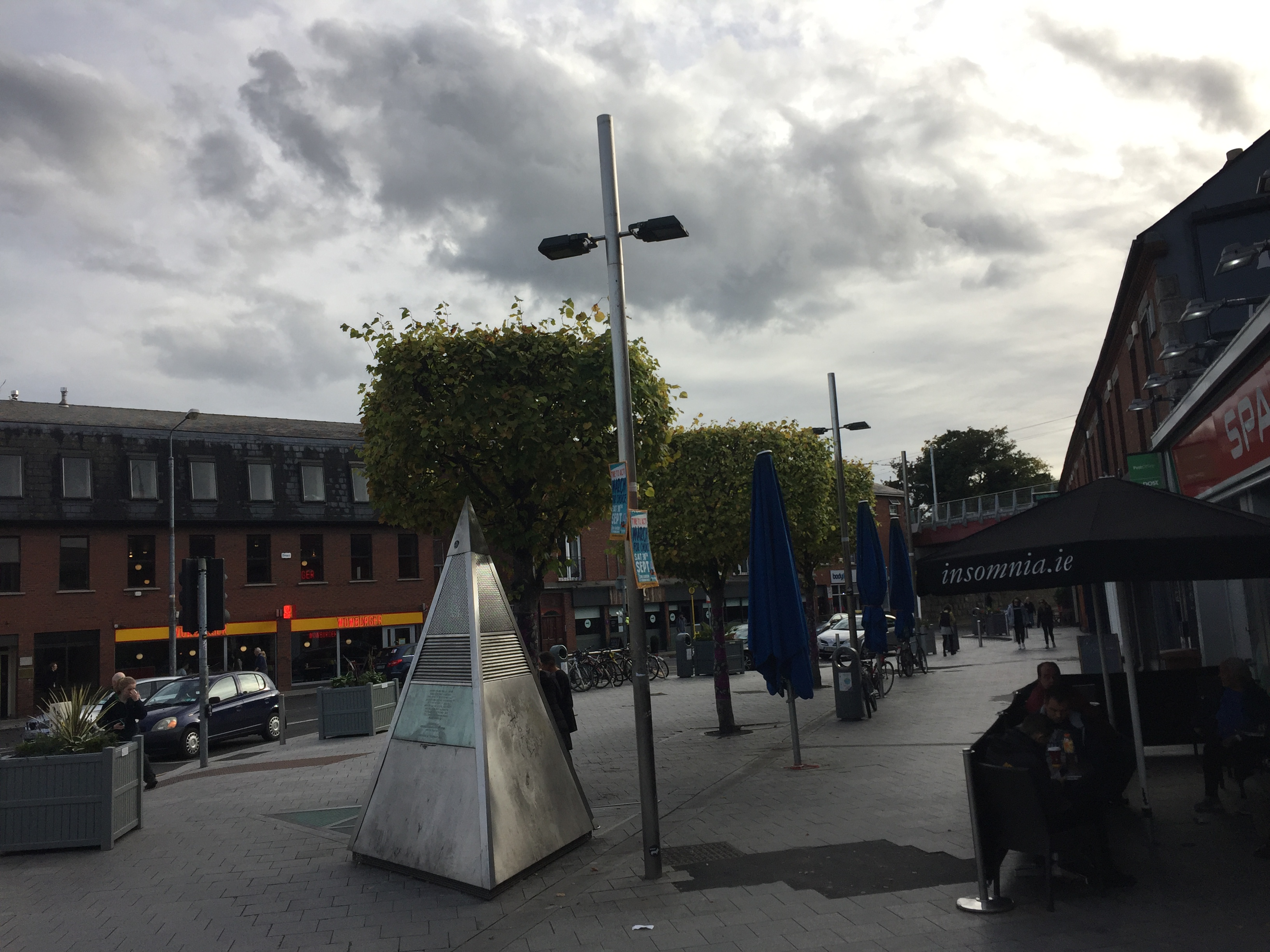 Ranelagh Triangle, September, 2017, with triangular memorial to local activist Deirdre Kelly in the foreground